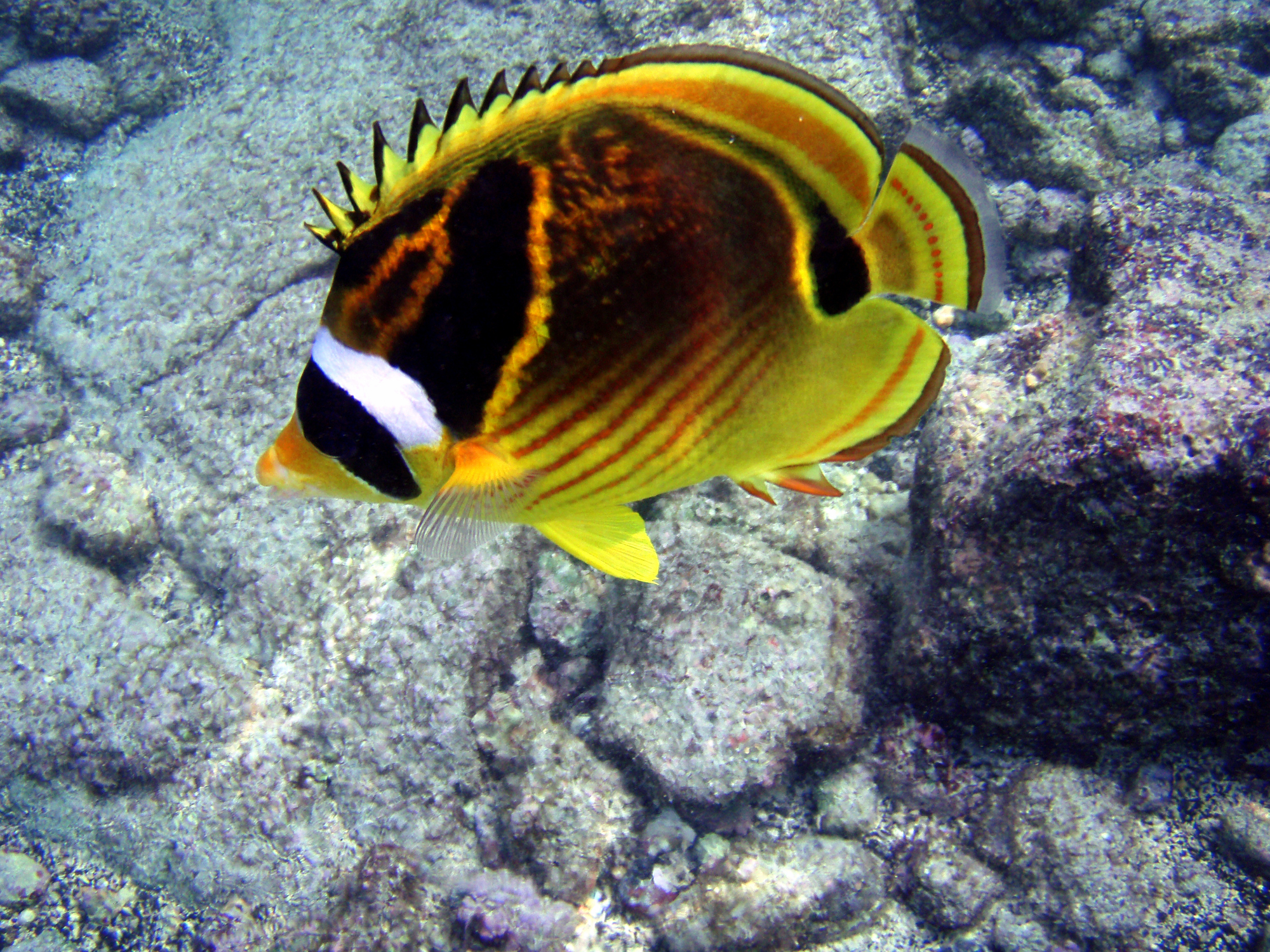 Raccoon butterflyfish (Chaetodon lunula) in Kona.